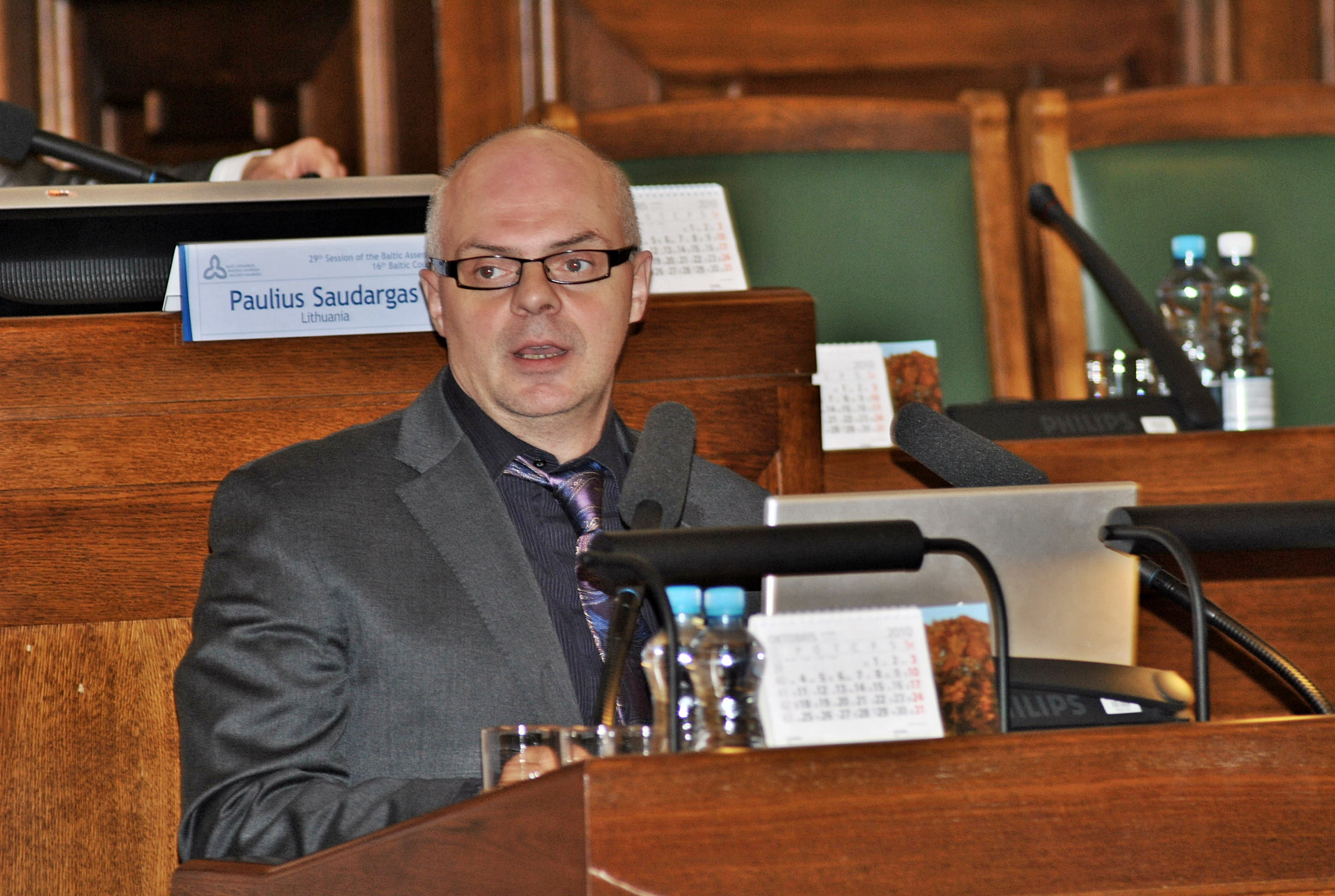 Social antropologist Roberts Ķīlis during the 29th session of the Baltic Assembly.